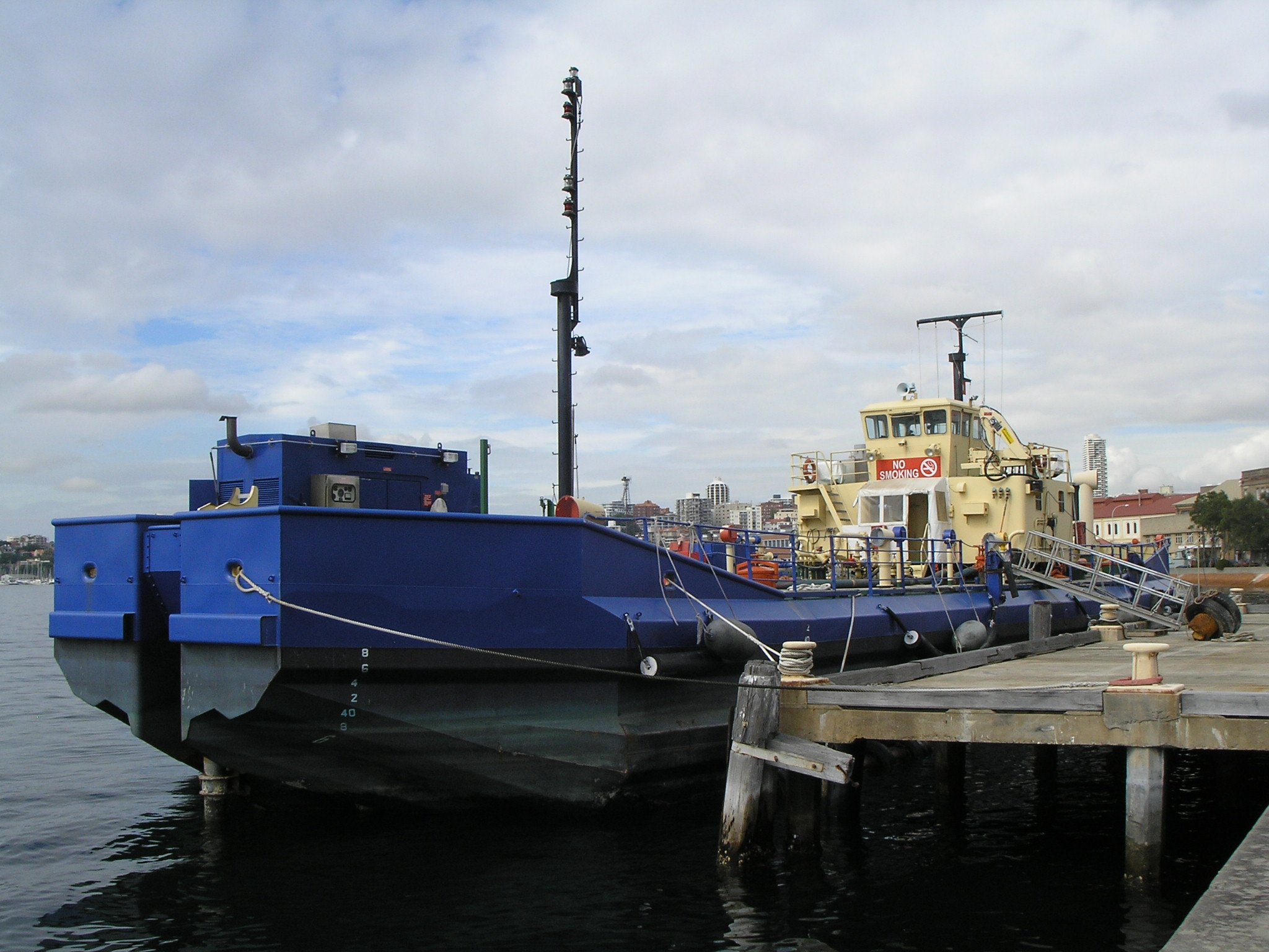 A Defence Maritime Services lighter at HMAS Kutabul in February 2008